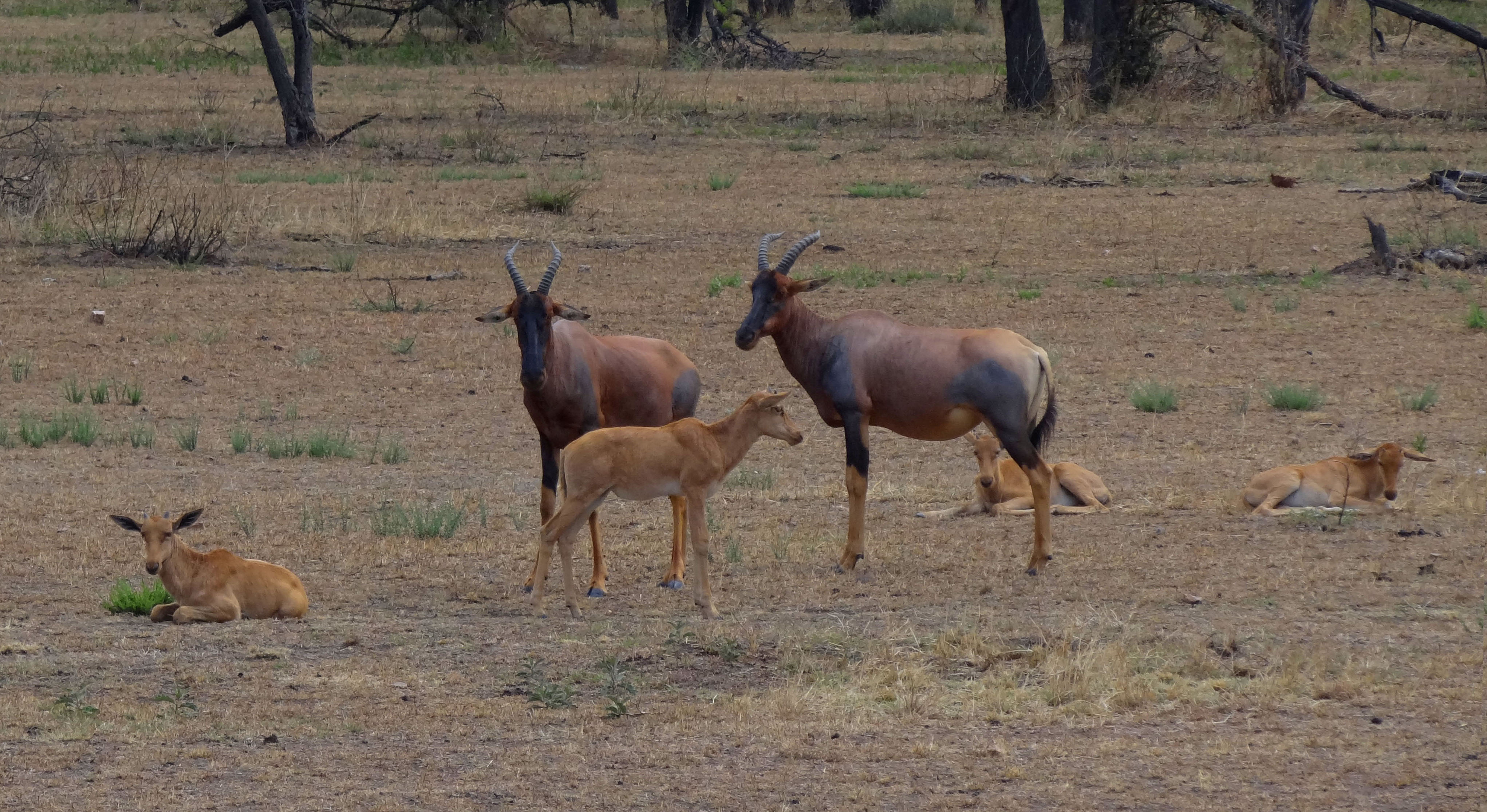 Topi family in Lake Nakuru National Park, Kenya